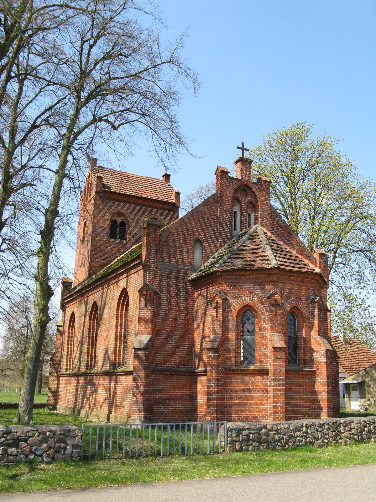 Church in Redlin, Mecklenburg-Vorpommern, Germany